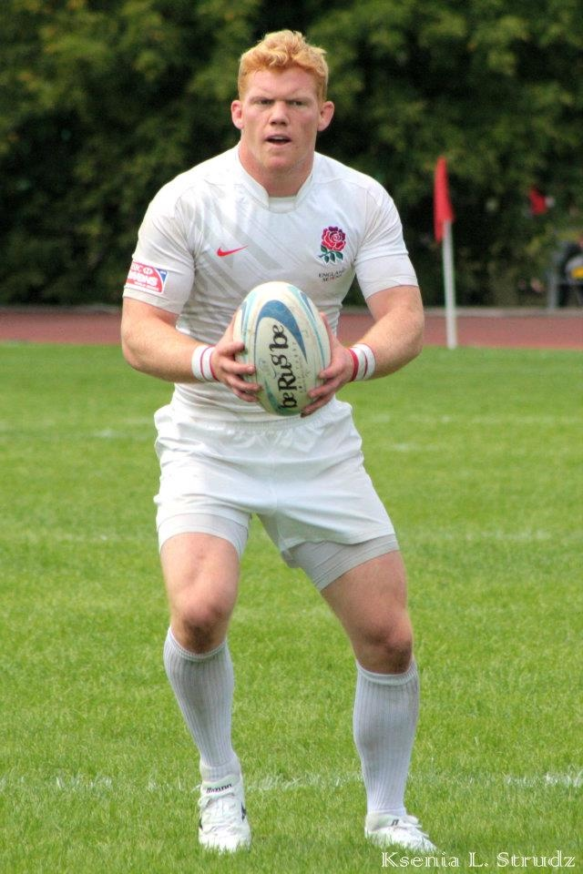 European Grand Prix Moscow